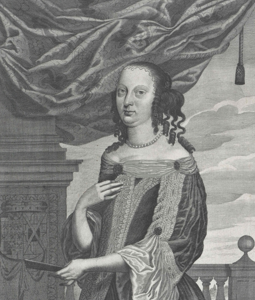 Portrait of Sophie Margarete of Oettingen-Oettingen (1634-1664), wife of Albert II, Margrave of Brandenburg-Ansbach